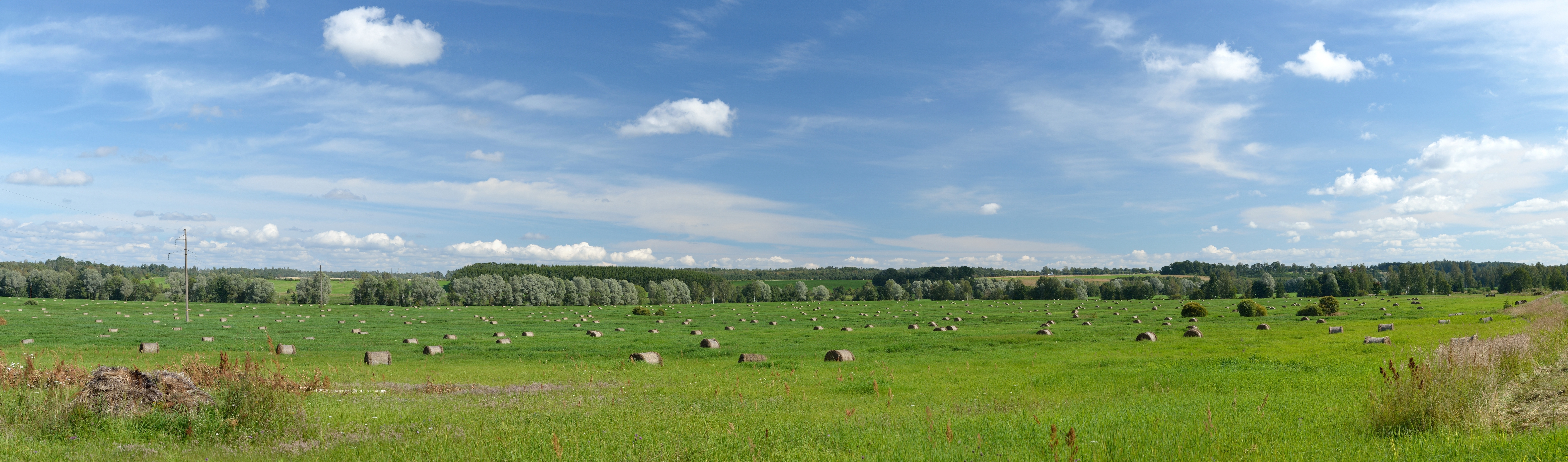 Meadow with round hay bales in Rihkama village, Estonia